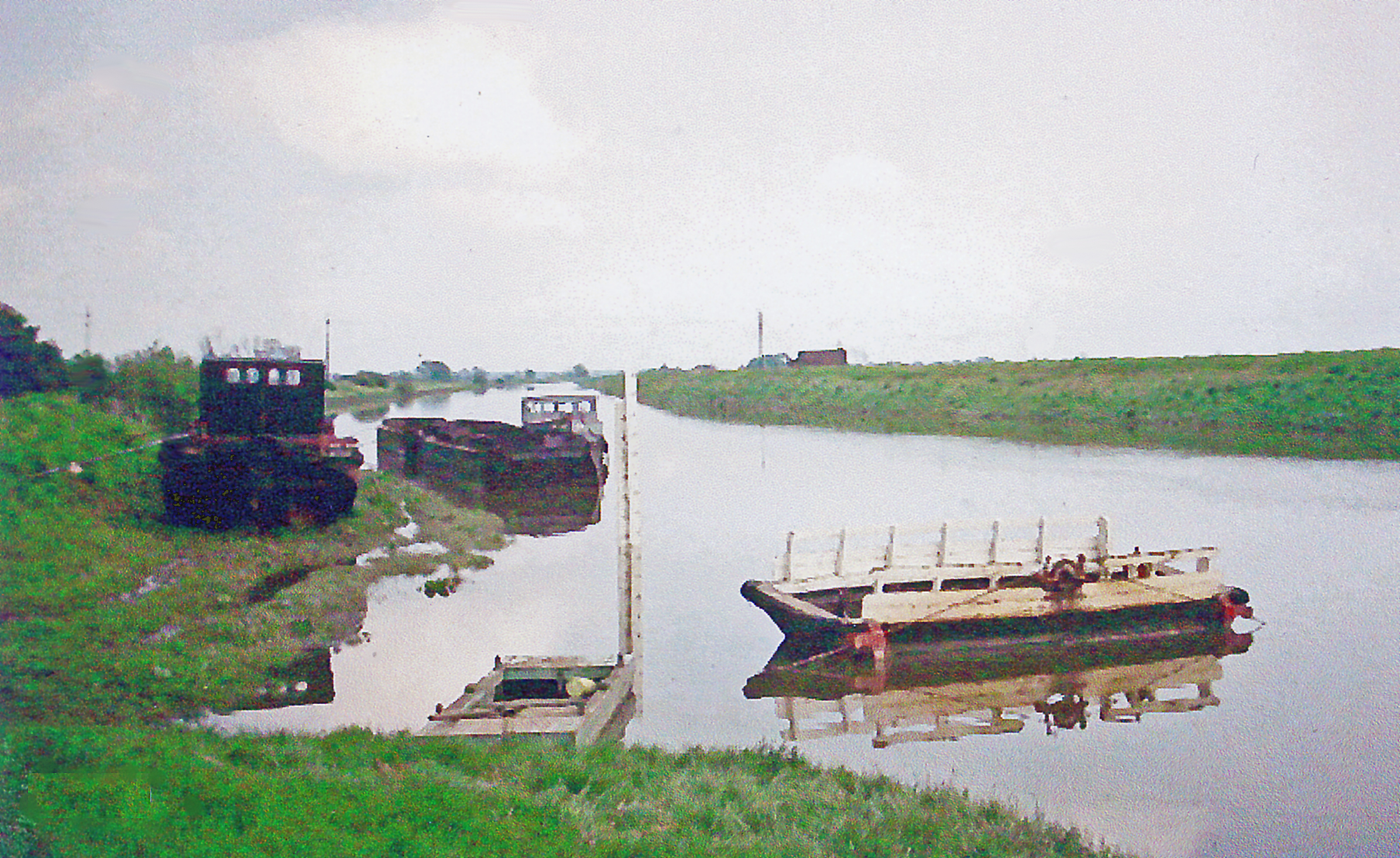 Upstream on River Witham at ferry across from site of Stixwould station. The ex-Great Northern Lincoln - Boston railway followed the river on the other side through Stixwould station until 6/10/70 - but is not visible here, and all looks rather desolate.